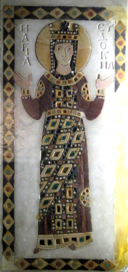 empress Aelia Eudocia. Icon. Colored stone inlay on marble. From church of Lips monastery (Fenari Isa Mosque), Fatih, Istambul. Archeological museum.